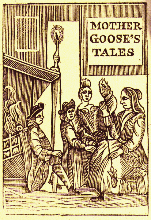 Woodcut rendition of the frontispiece of Perrault's Histoires published in England in 1763. The frontispiece from the third edition of Perrault's Histories (1763) published by Collins. Image copied from the 1697 Paris edition.